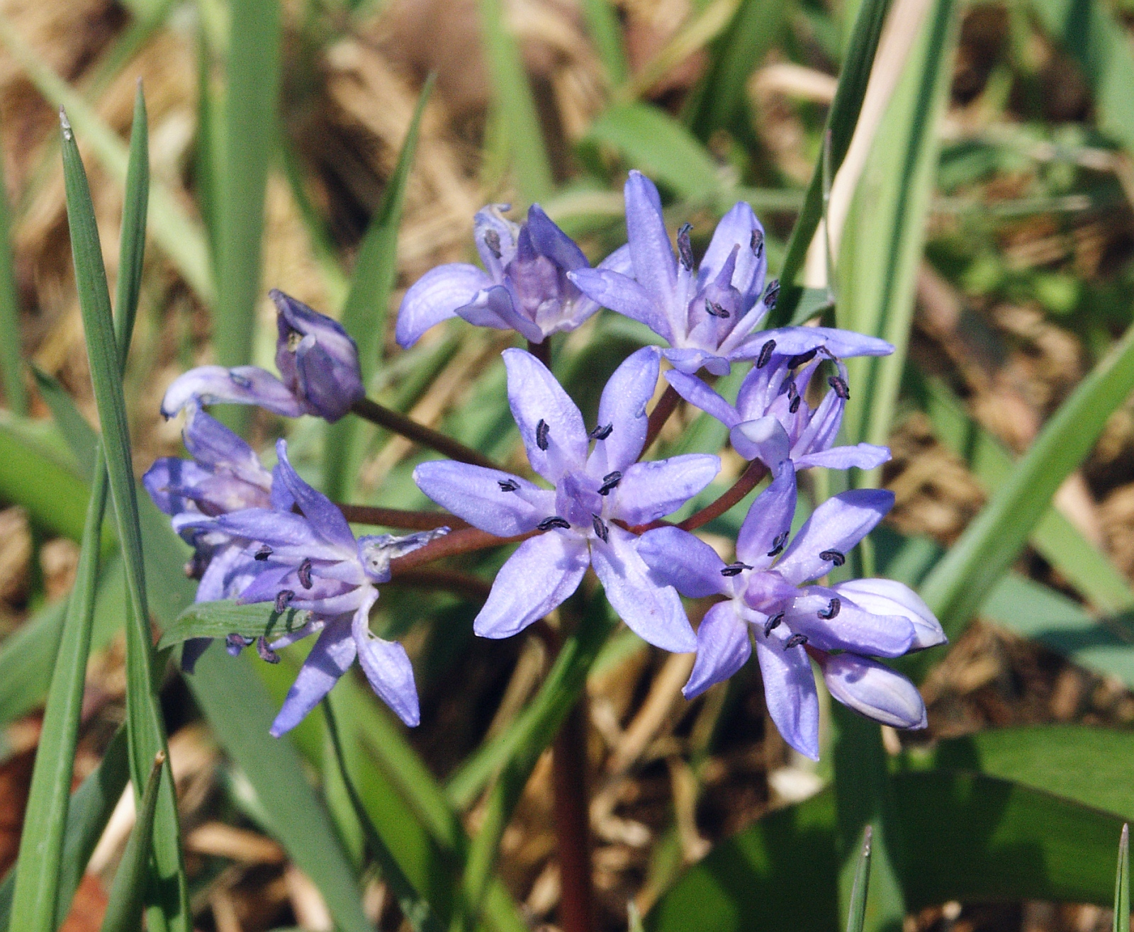 Scilla bifolia, Hohenloher Land, Germany